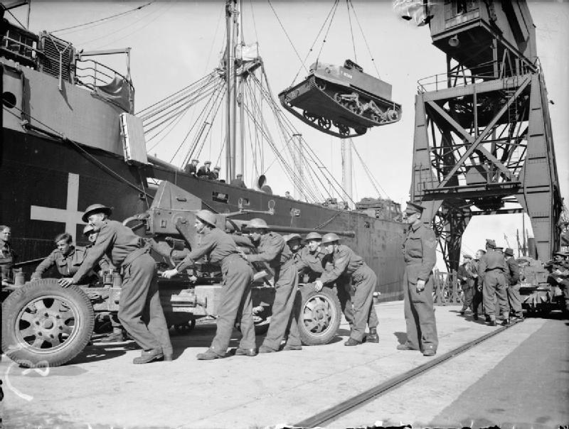 The British Army in the United Kingdom 1939-45 Unloading Bren gun carriers and a 40mm Bofors gun at Southampton during the return of the second British Expeditionary Force from France, 19 June 1940.